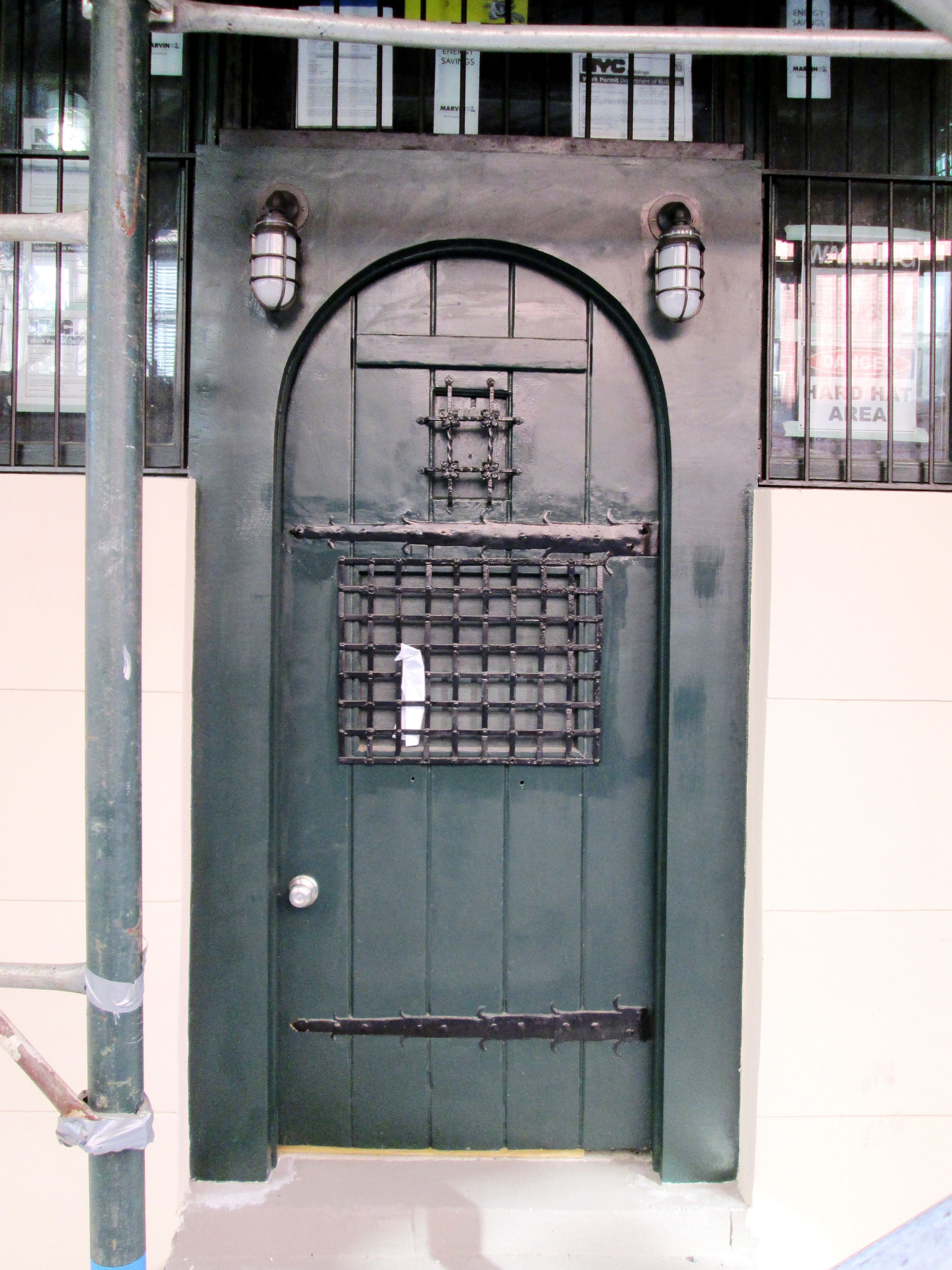 Chumley's is a historic pub and former speakeasy at 86 Bedford Street between Grove and Barrow Streets in the West Village neighborhood of Greenwich Village, Manhattan, New York City. It was established in 1922 by the socialist activist Leland Stanford Chumley, who converted a former blacksmith's shop near the corner of Bedford and Barrow Streets into a Prohibition-era drinking establishment. The speakeasy became a favorite spot for influential writers, poets, playwrights, journalists, and activists, including members of the Lost Generation and the Beat Generation movements. Some features remain from Chumley's Prohibition-era history. Notably, the Barrow Street entrance has no exterior sign, being located at the end of a nondescript courtyard ("The Garden Door"), while the Bedford Street entrance, which opens to the sidewalk, is also unmarked. Inside, Chumley's is still equipped with the trap doors and secret stairs that composed part of its elaborate subterfuge.